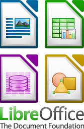 New official logo of LibreOffice.